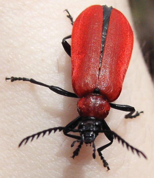 Pyrochroa coccinea in Ratingen, Germany.